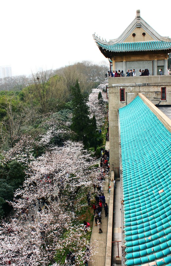 Cherry Blossom in Wuhan University